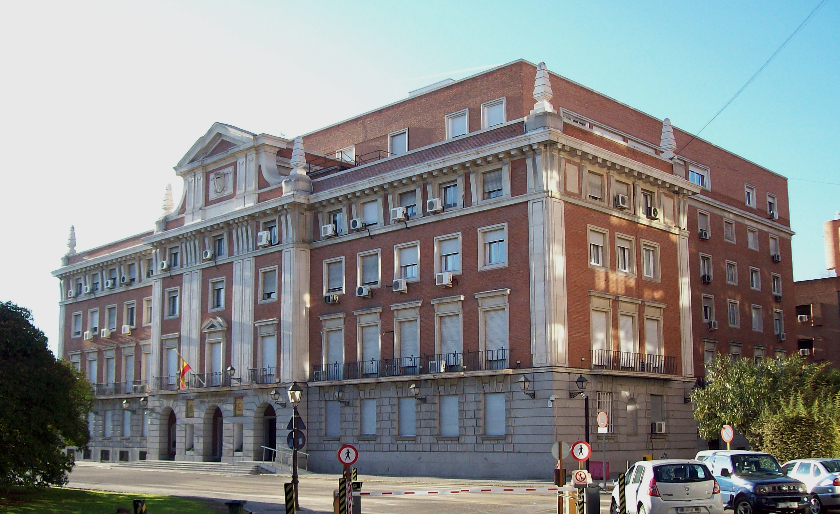 Headquarters of the Spanish Agency for International Development Cooperation (AECID), at 4th Avenida de los Reyes Católicos (street) in Moncloa-Aravaca district in Madrid. Building was projected in 1940 by Luis Martínez-Feduchi and built between 1940 and 1951.